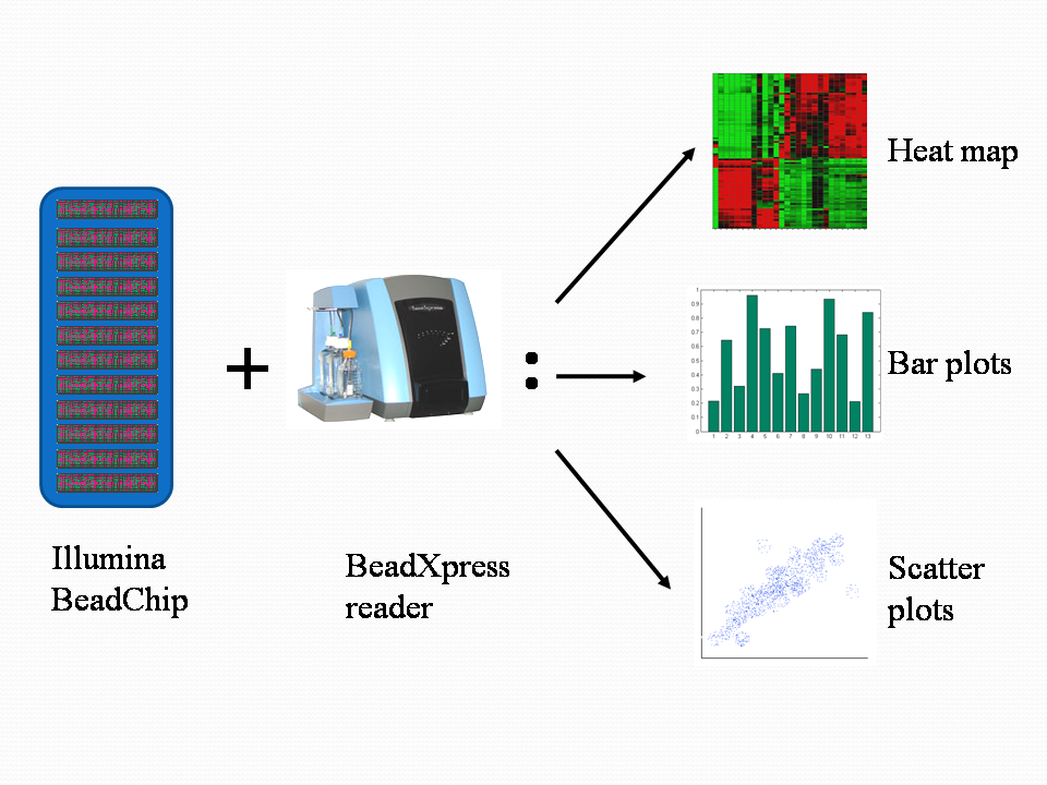 Figure 2. Various types of data analysis using BeadStudio Methylation Module.